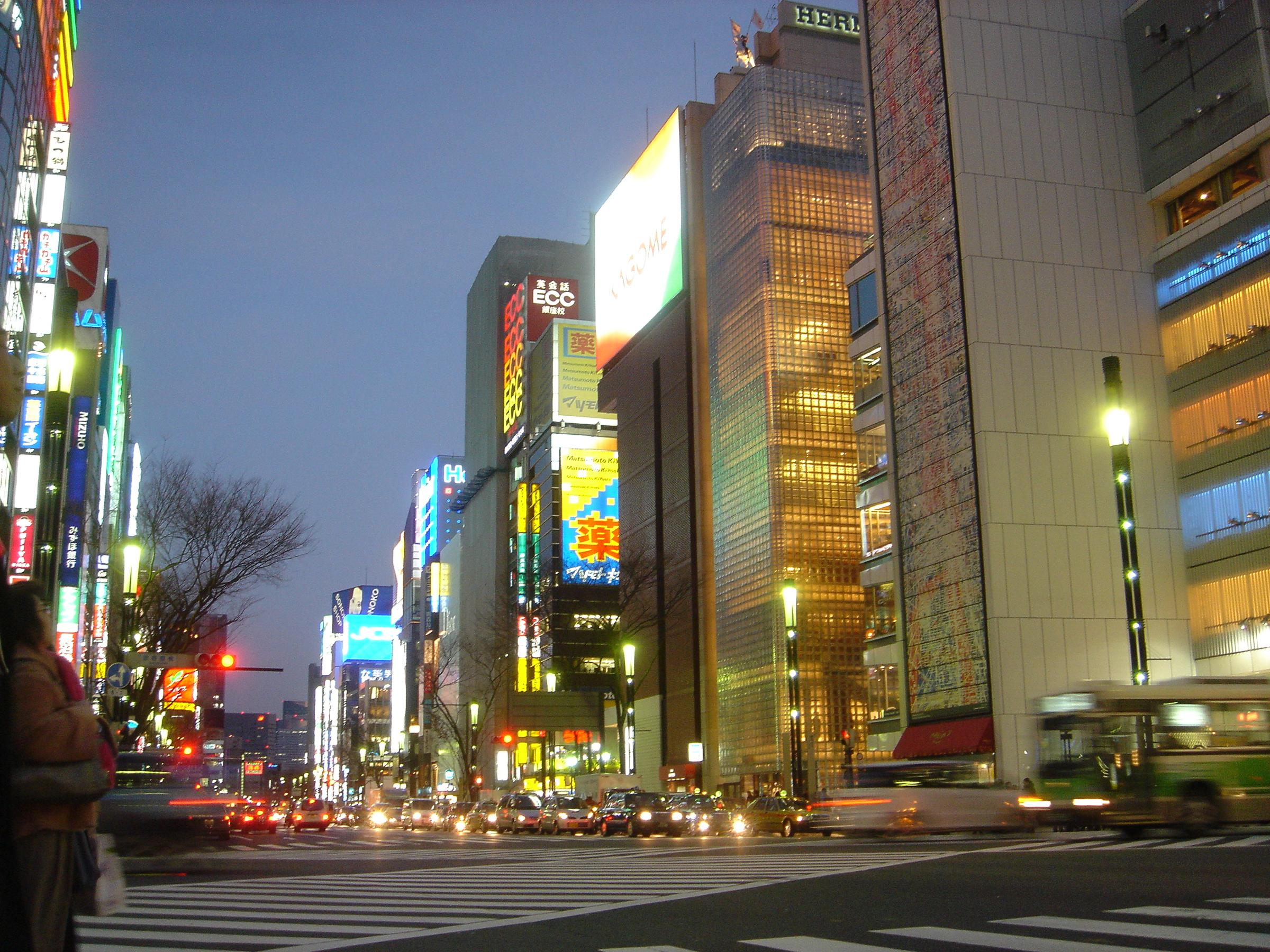 Colourful intersection at Ginza - Tokyo, Japan